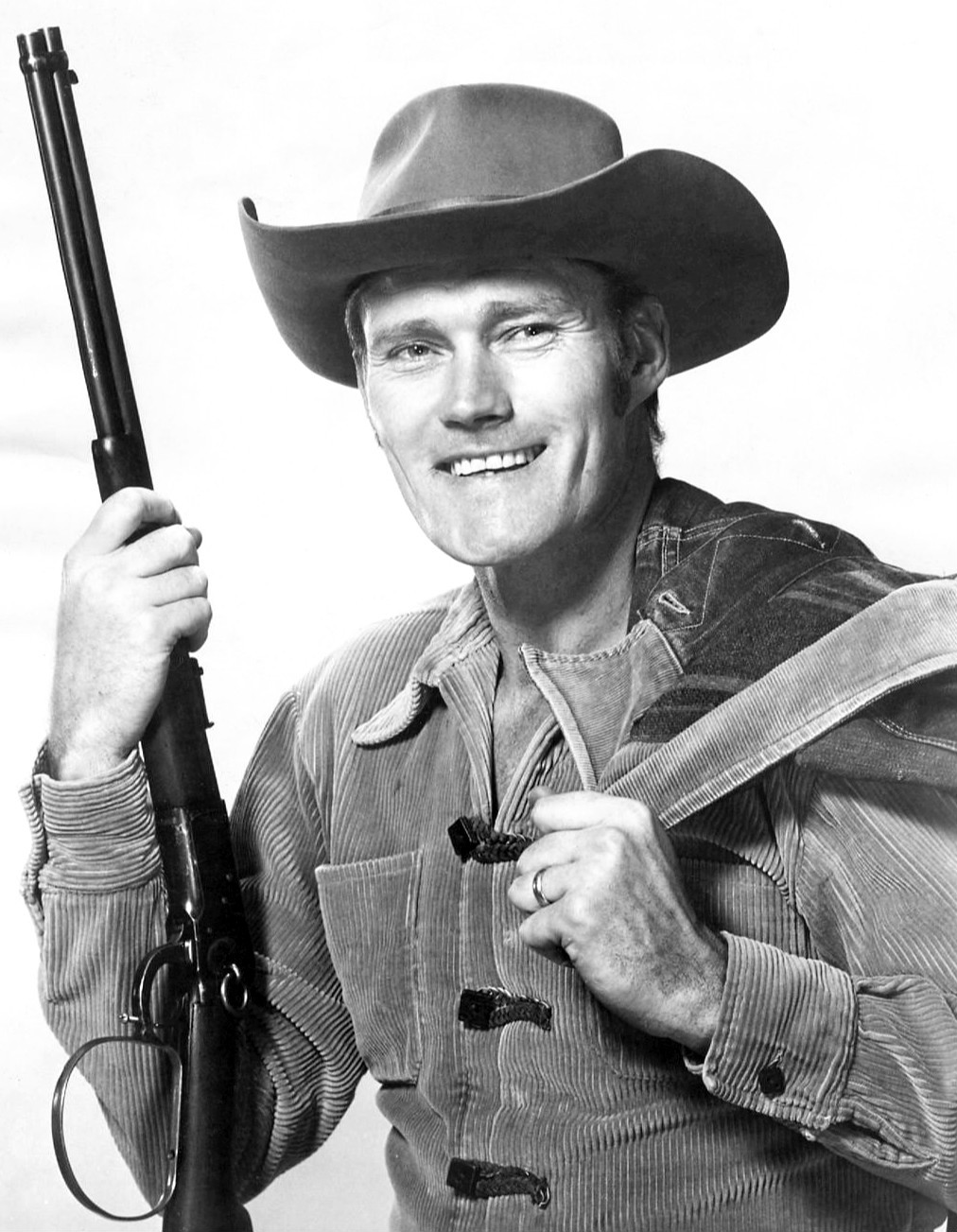 Photo of Chuck Connors as Lucas McCain from the television program The Rifleman.